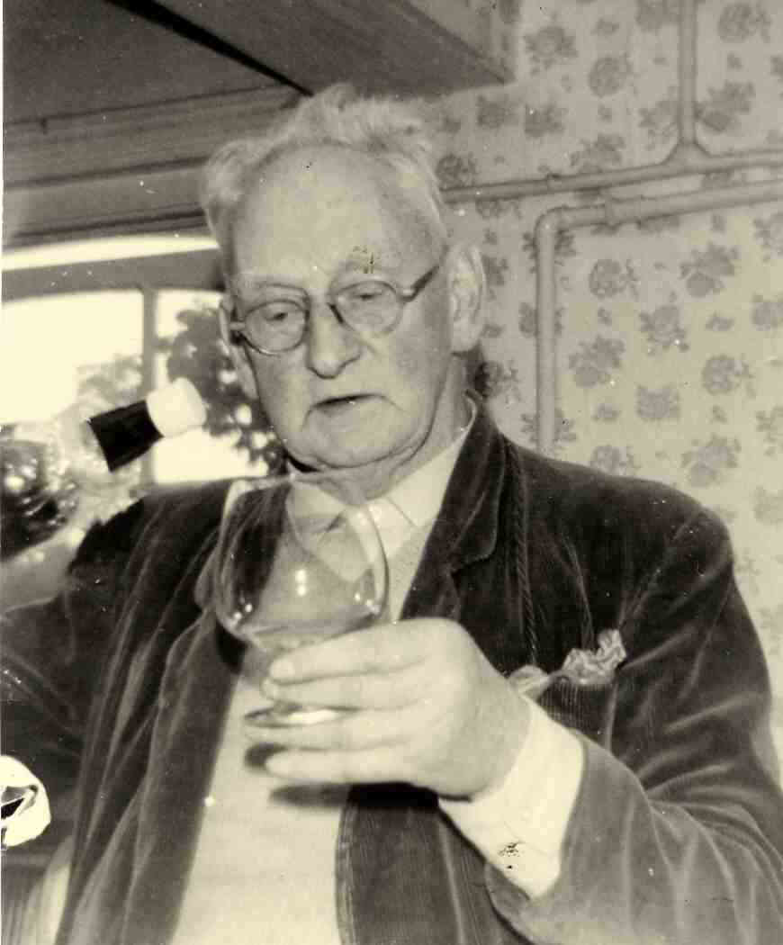 Neill on his birthday.